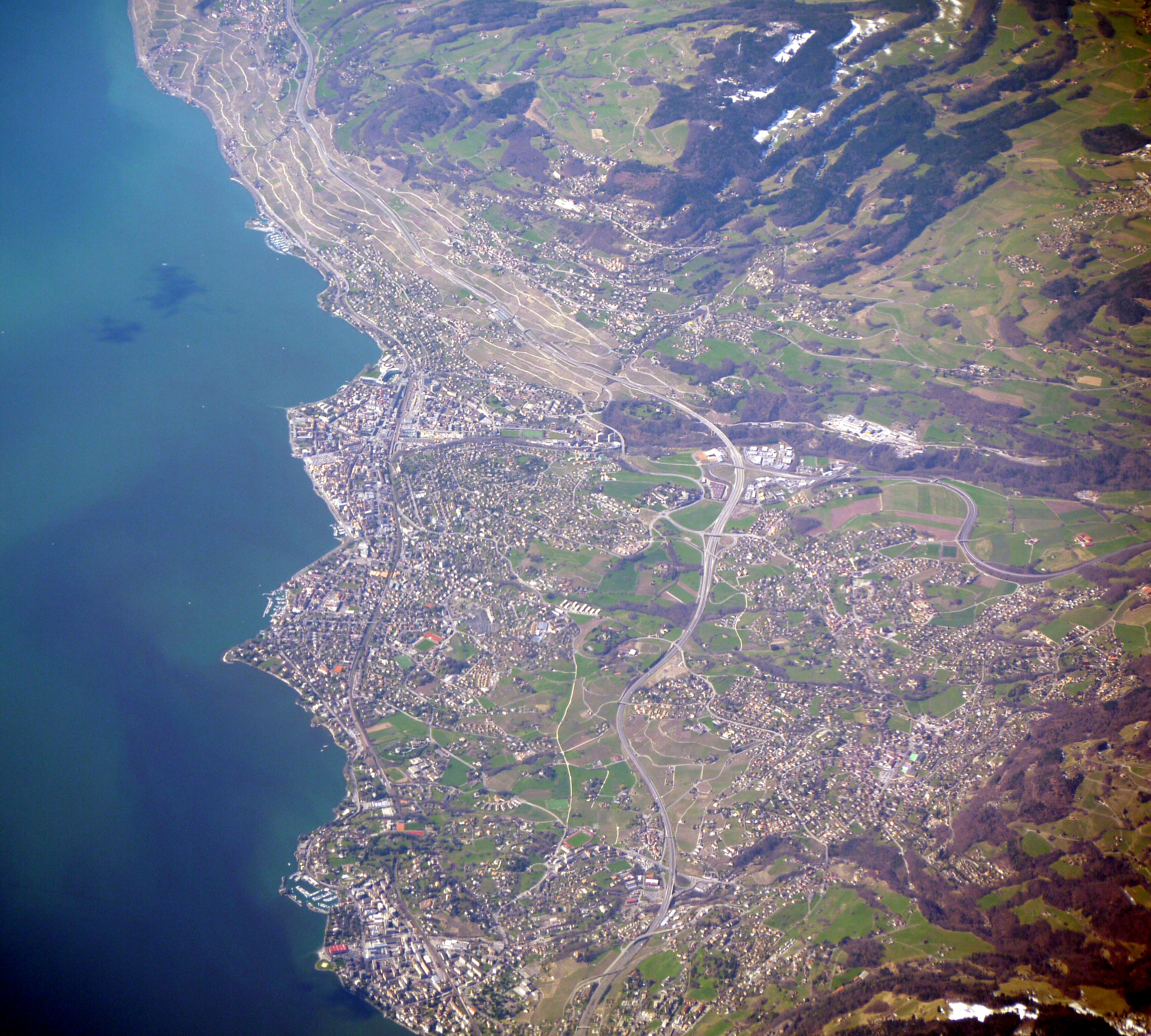 Vevey, photograph taken from the sky, on the fly line between Marseille and Stockholm.